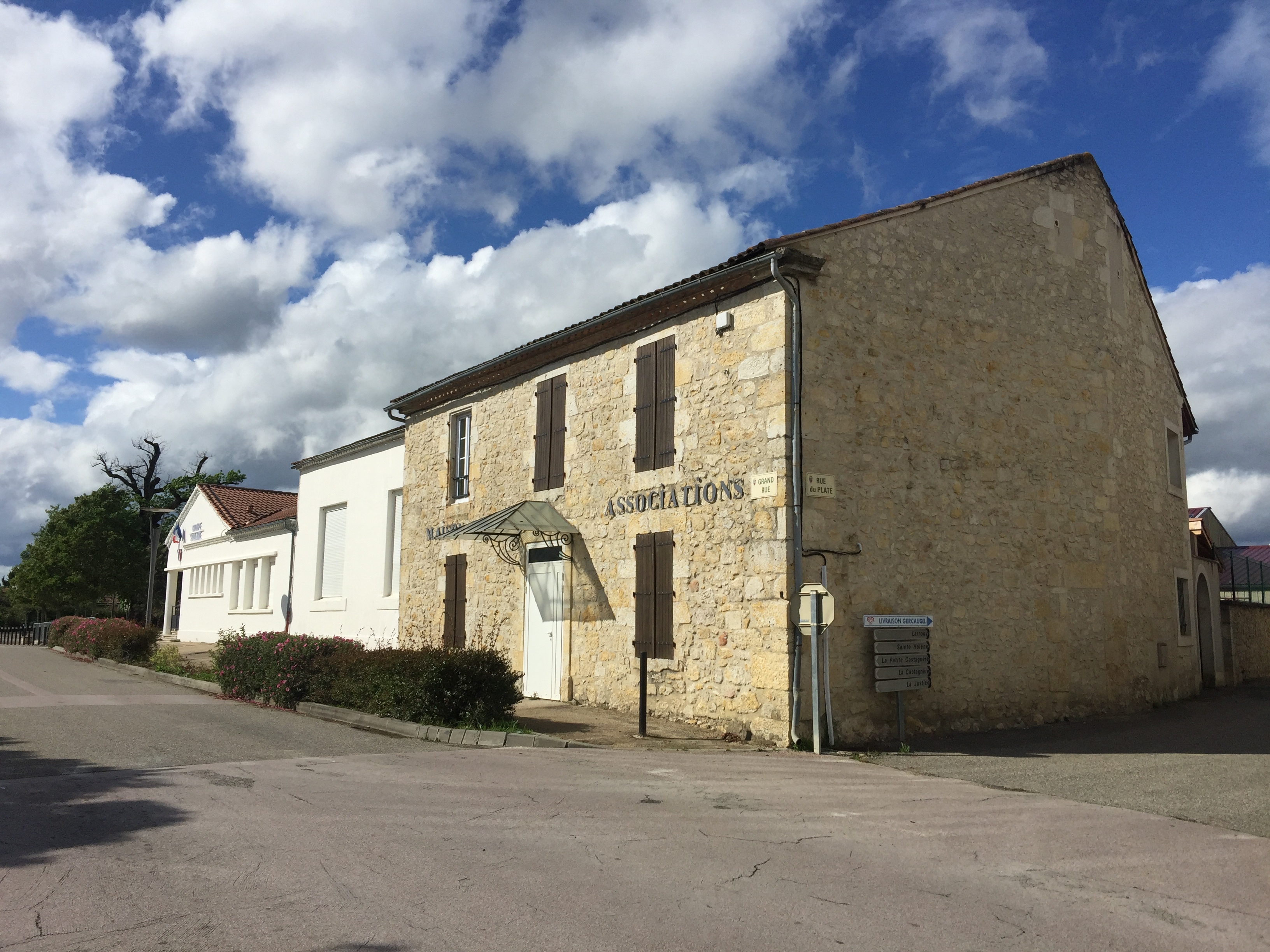 School in Caussens, Gers